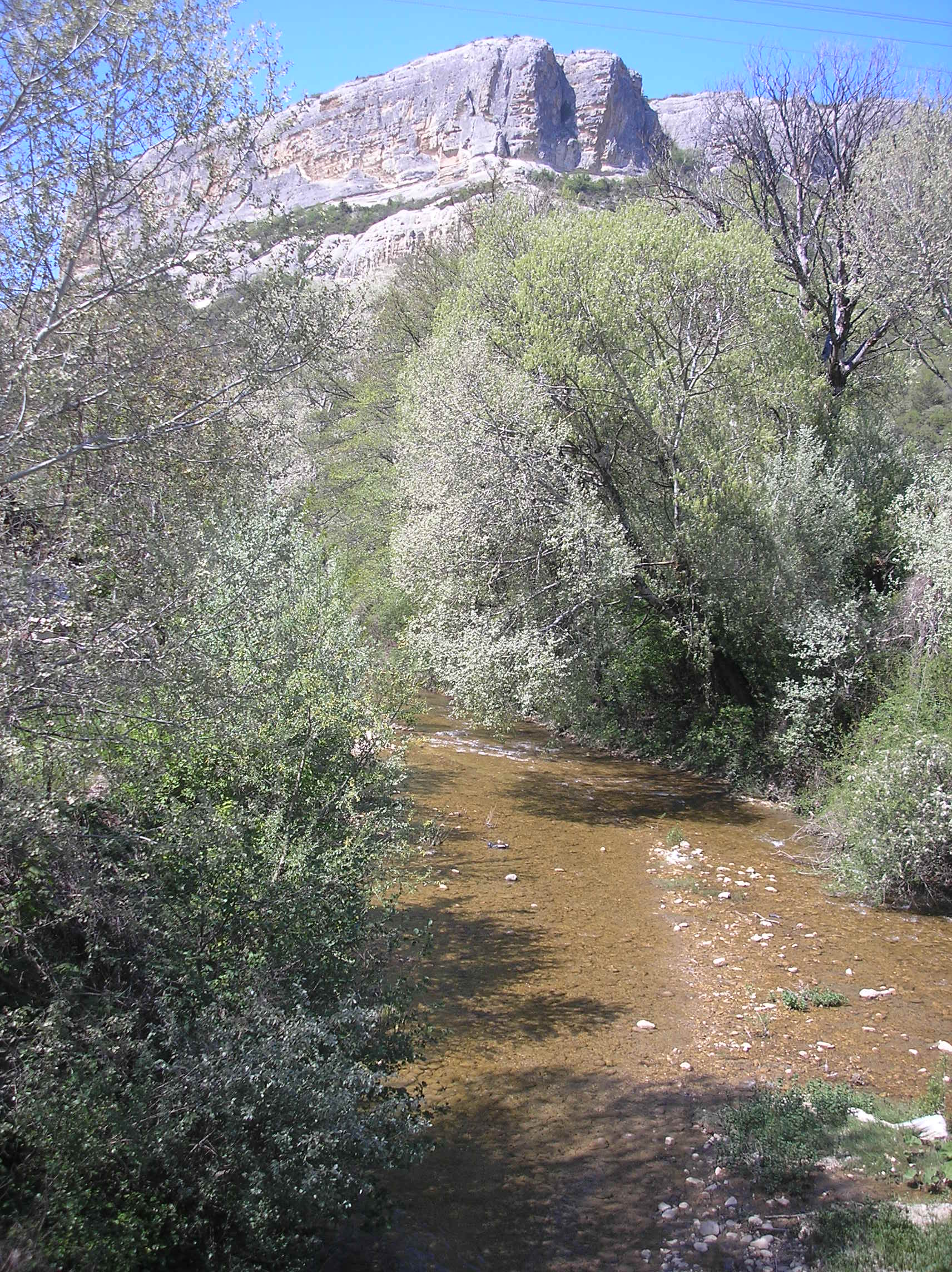 Belbek River, Crimea, Ukraine